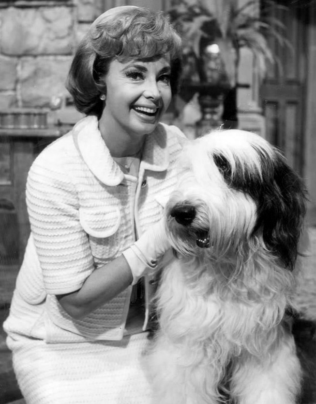 Photo of Audrey Meadows as a guest star on the television program Please Don't Eat the Daisies.